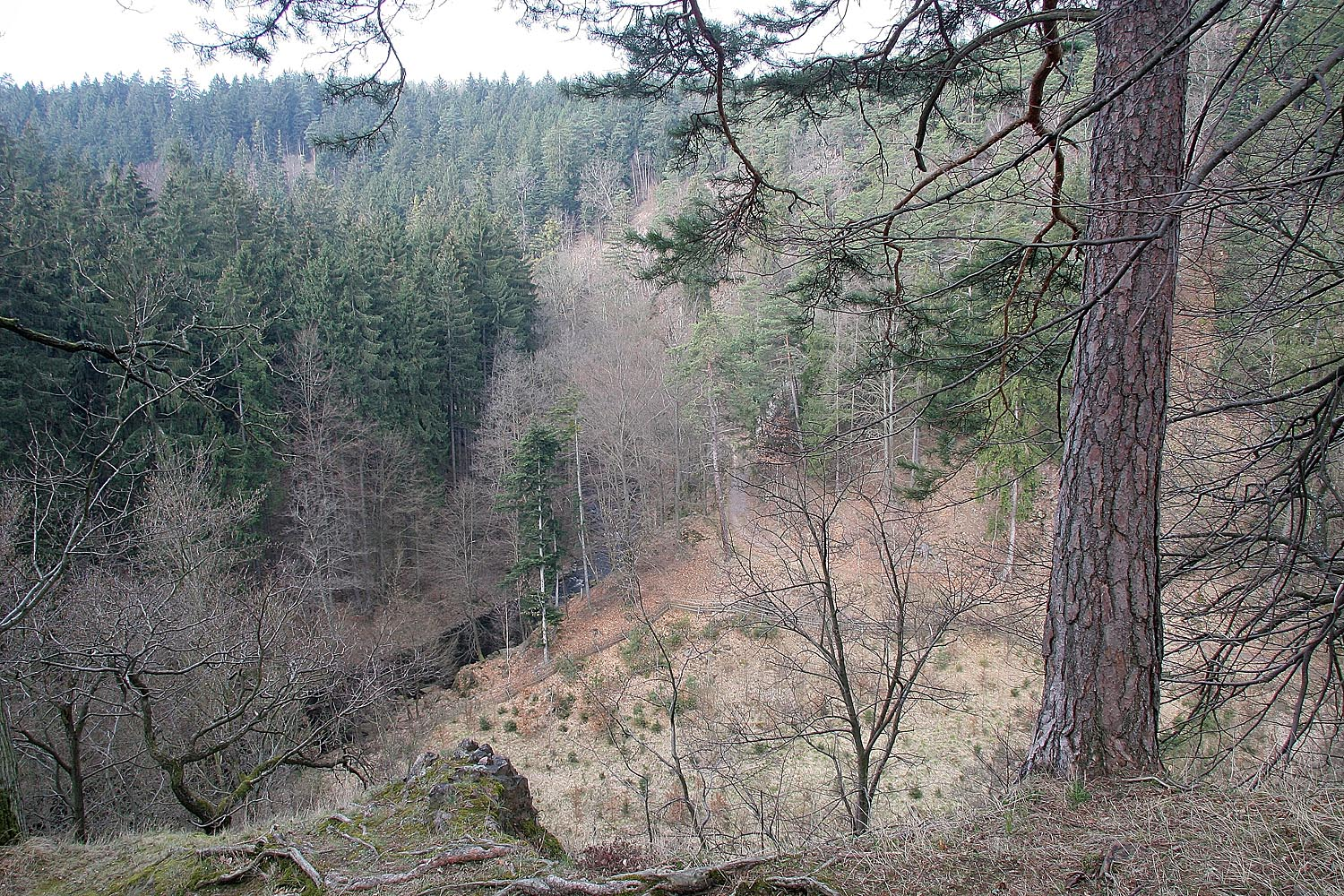 View of ruins of castle Strádov, district Chrudim, Czech Republic autor: Prazak date: 1. 4. 2007